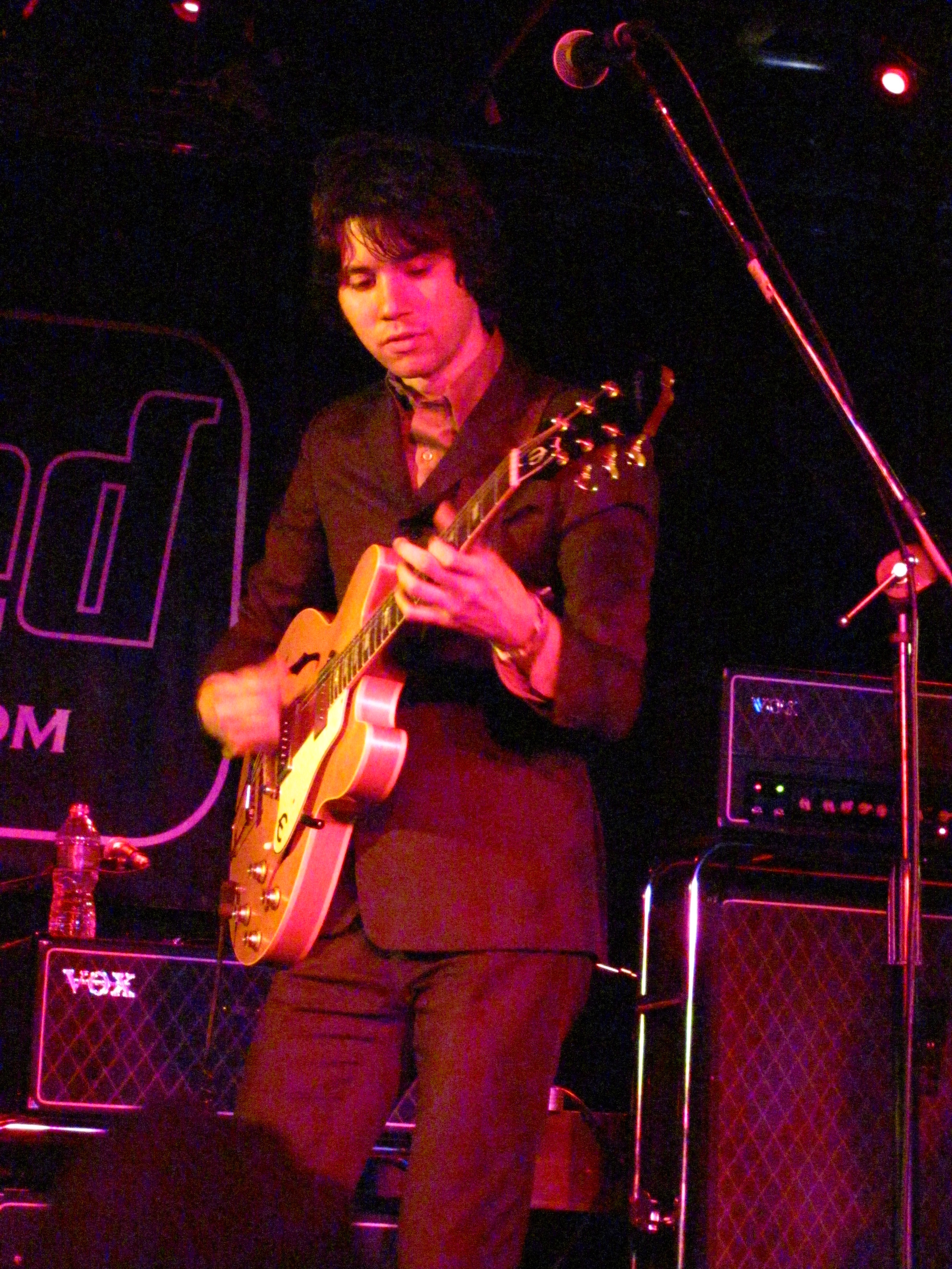 Ryan Ross performing with The Young Veins at the Crazy Donkey, July 2010